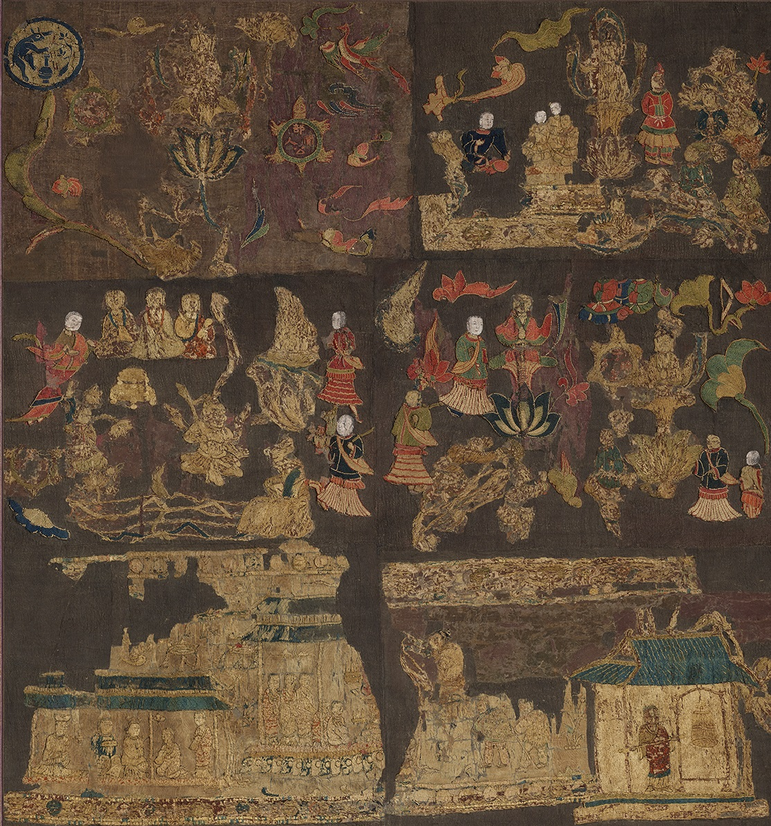 Fragments of tapestry, Embroideries comprized of Original 6th century work and 13th centuiry replica, silk, 88.8x81.8cm, Chuguji Temple, Nara, JAPAN